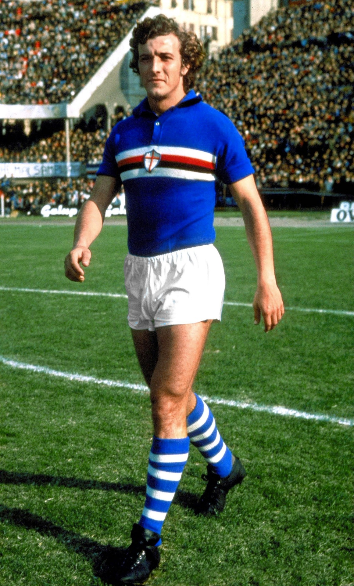 Italian footballer Marcello Lippi with U.C. Sampdoria in 1972, on the field of Luigi Ferraris Stadium in Genova.